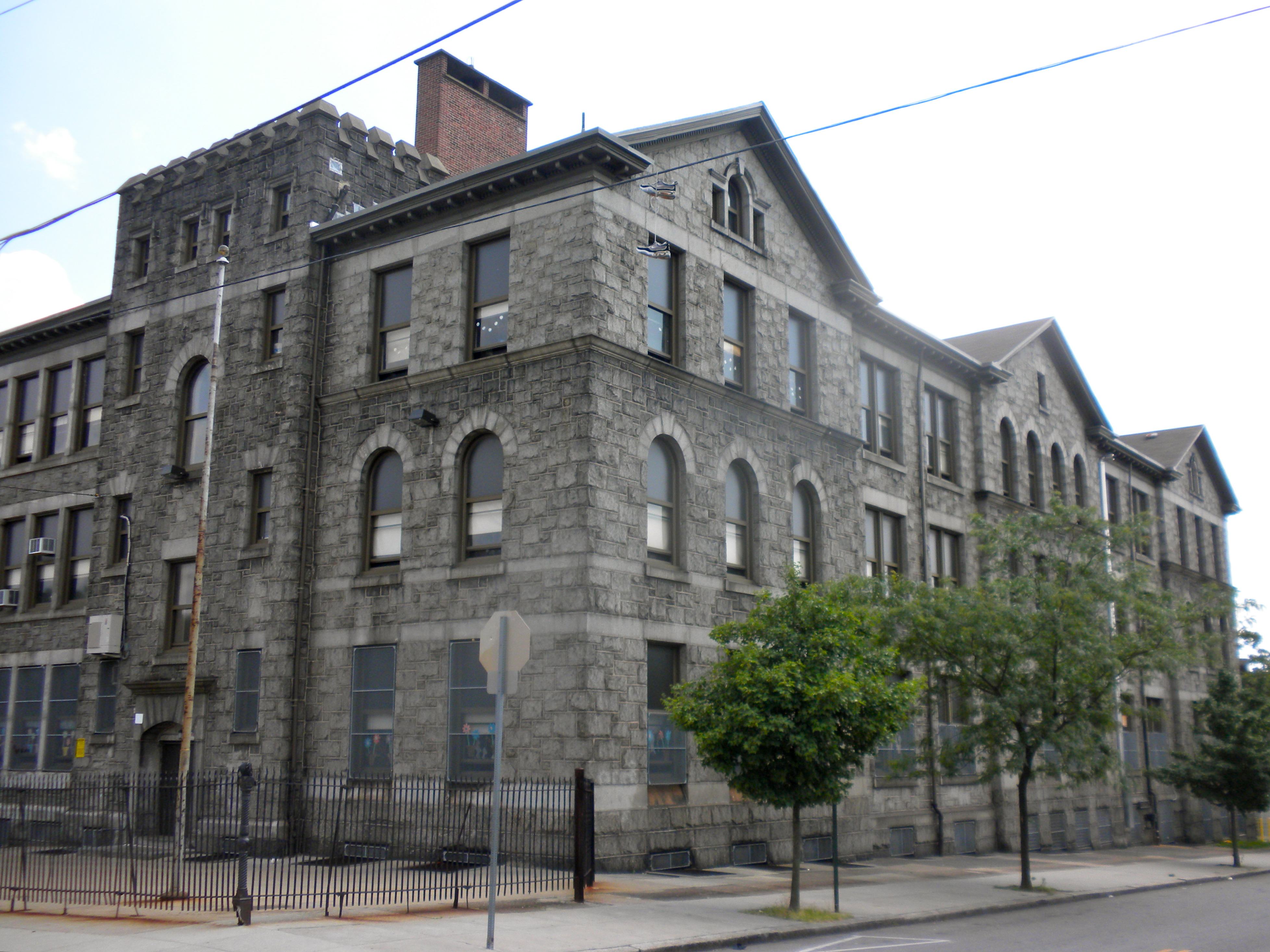 Fitler School on NRHP since December 4, 1986. At 140 West Seymour Street in the Germantown neighborhood of Northwest Philadelphia. Likely named for Mayor Filter.